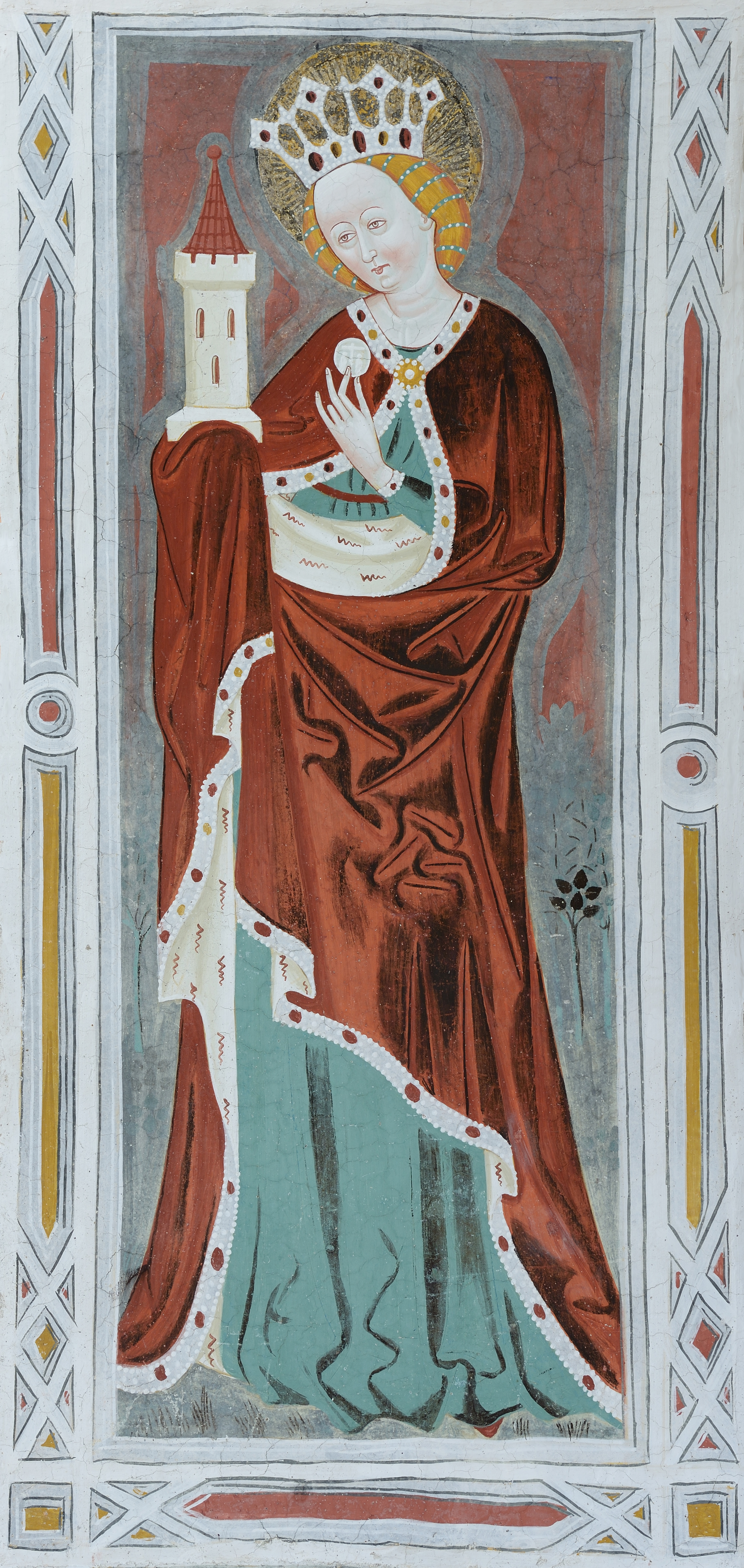 Saint Barbara in a 15th century fresco on the apsidal arch of the St. Jacob church in Urtijëi, in Val Gardena, Italy.